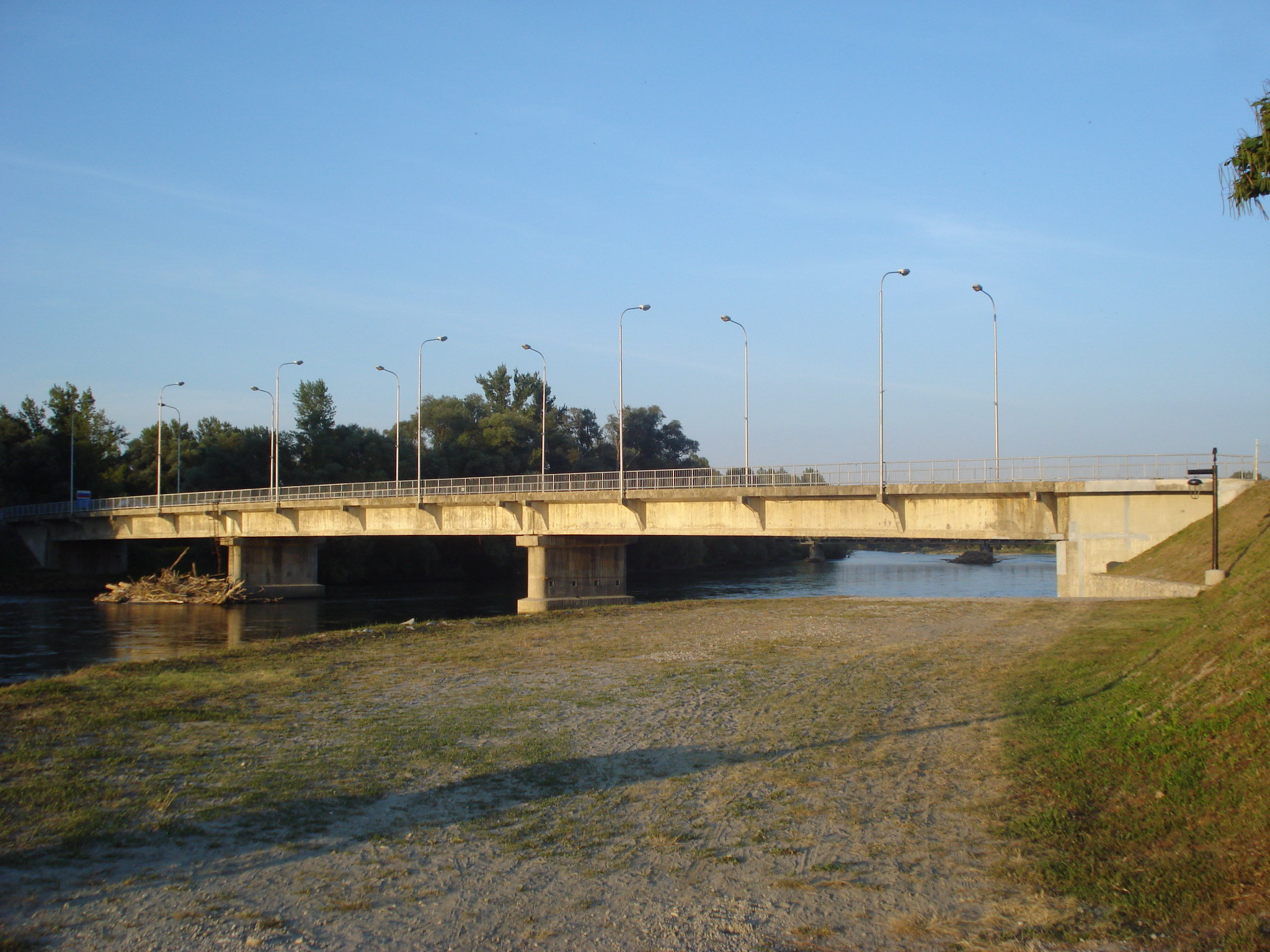 Road bridge over the Mura river in Mursko Središće, Međimurje County, Croatia